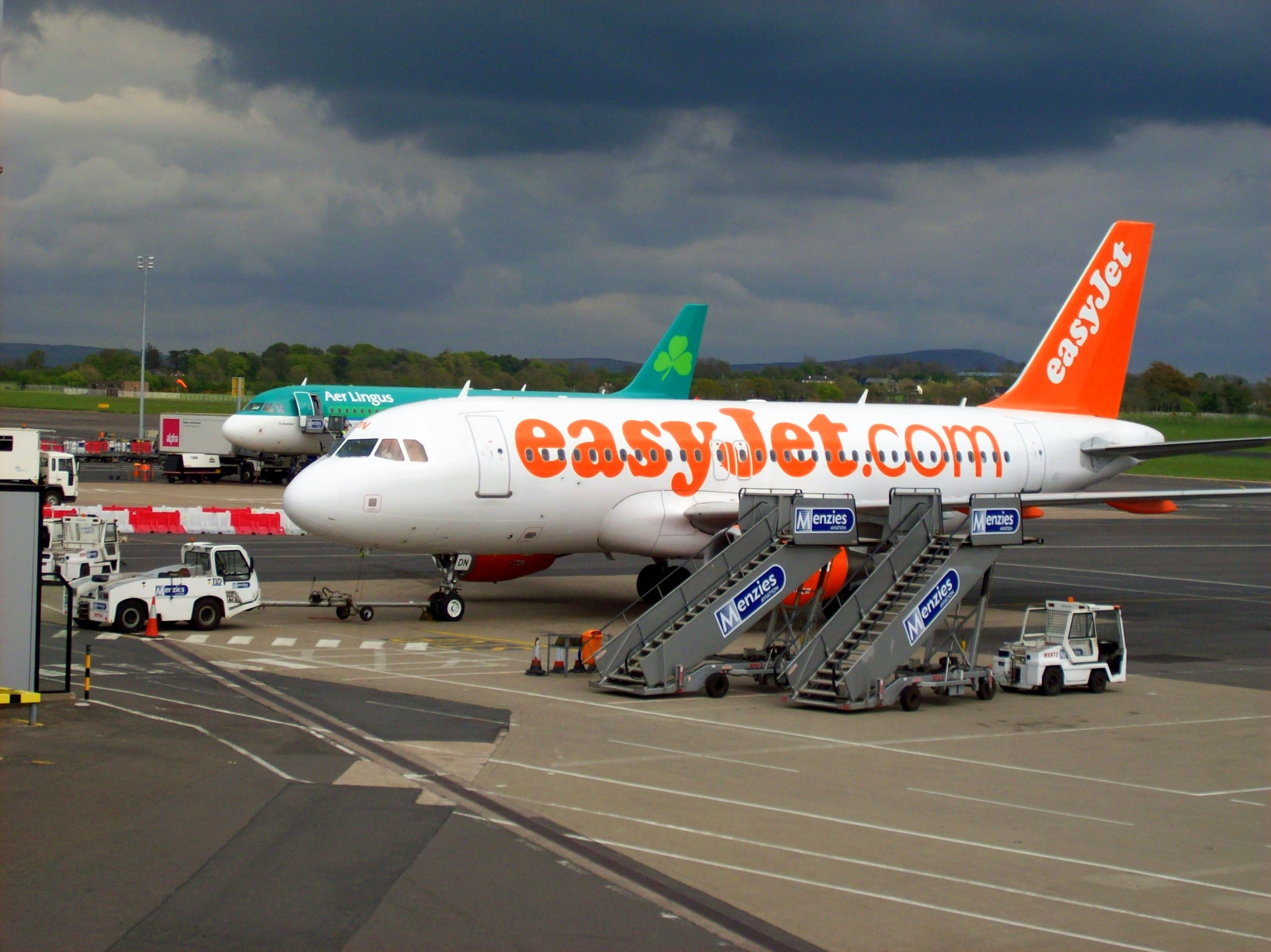 One of EasyJet's Airbus A319 aircraft on the tarmac at Belfast International Airport (EGAA/BFS). Five of EasyJet's A319s are based at Belfast.